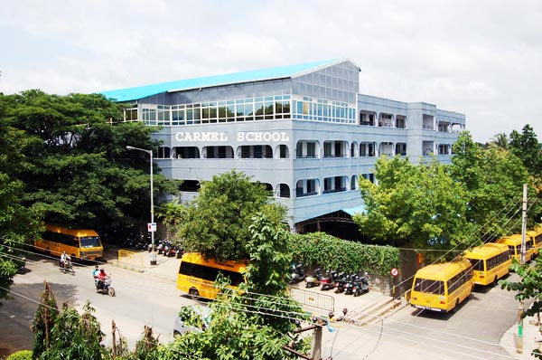 A picture of Carmel School in Padmanabhanagar in Bangalore